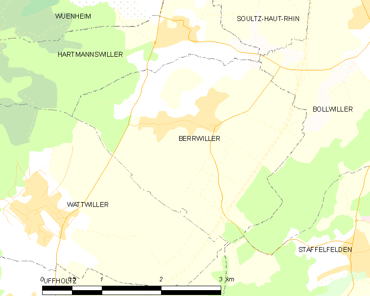 Map of French municipality